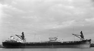 RFA ECHODALE at a dock